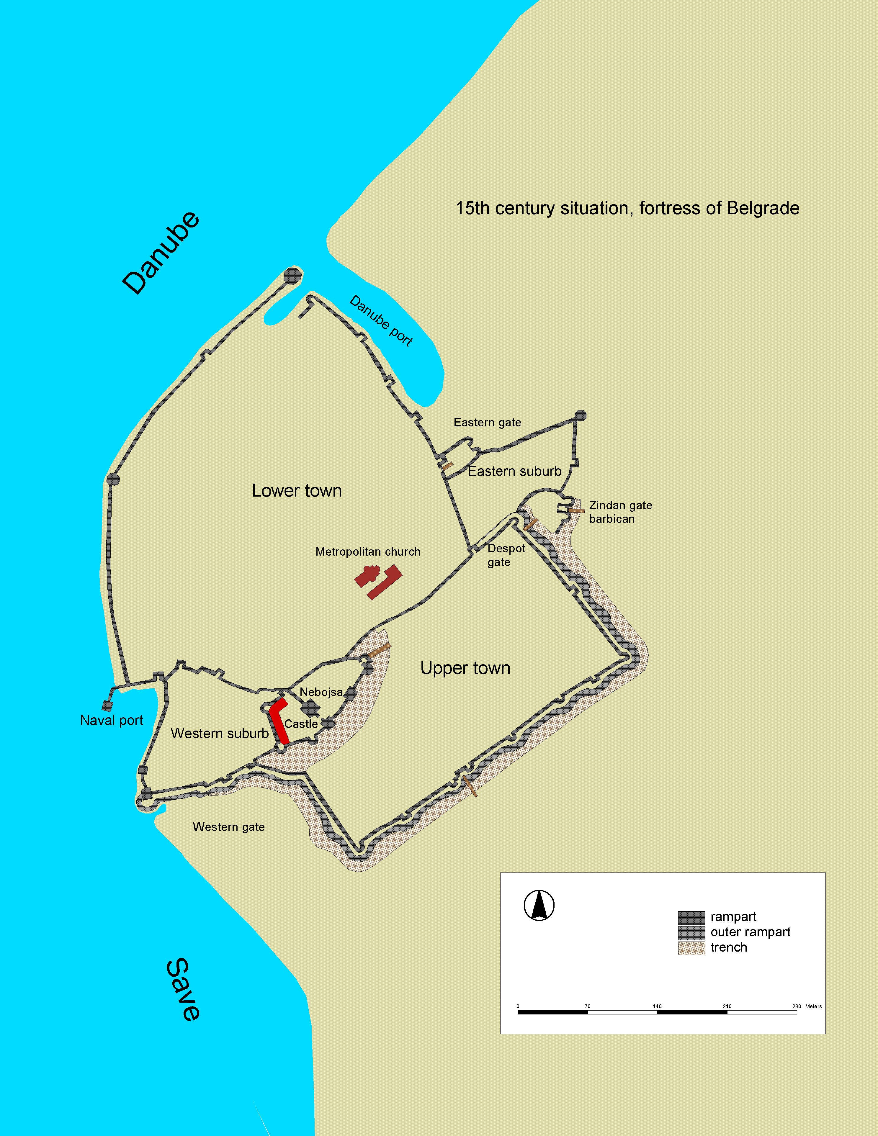 Situatative map of the fortress of Belgrade during the 15th century